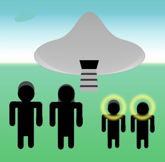 Adam, Eve, and extraterrestrial Elohim (according to Raëlism)